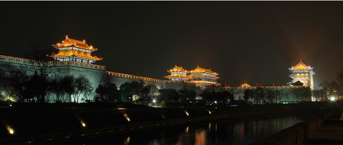 Xi'an city wall. Photo by ismsOweak.